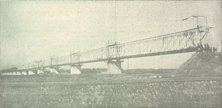 Launching of the Dona Amélia bridge, on the Vendas Novas Railway, in Portugal, on the 10th November 1903. Esta imagem foi publicada na Gazeta dos Caminhos de Ferro n.º 382, de 16 de Novembro de 1903, e digitalizada pela Hemeroteca Municipal de Lisboa.